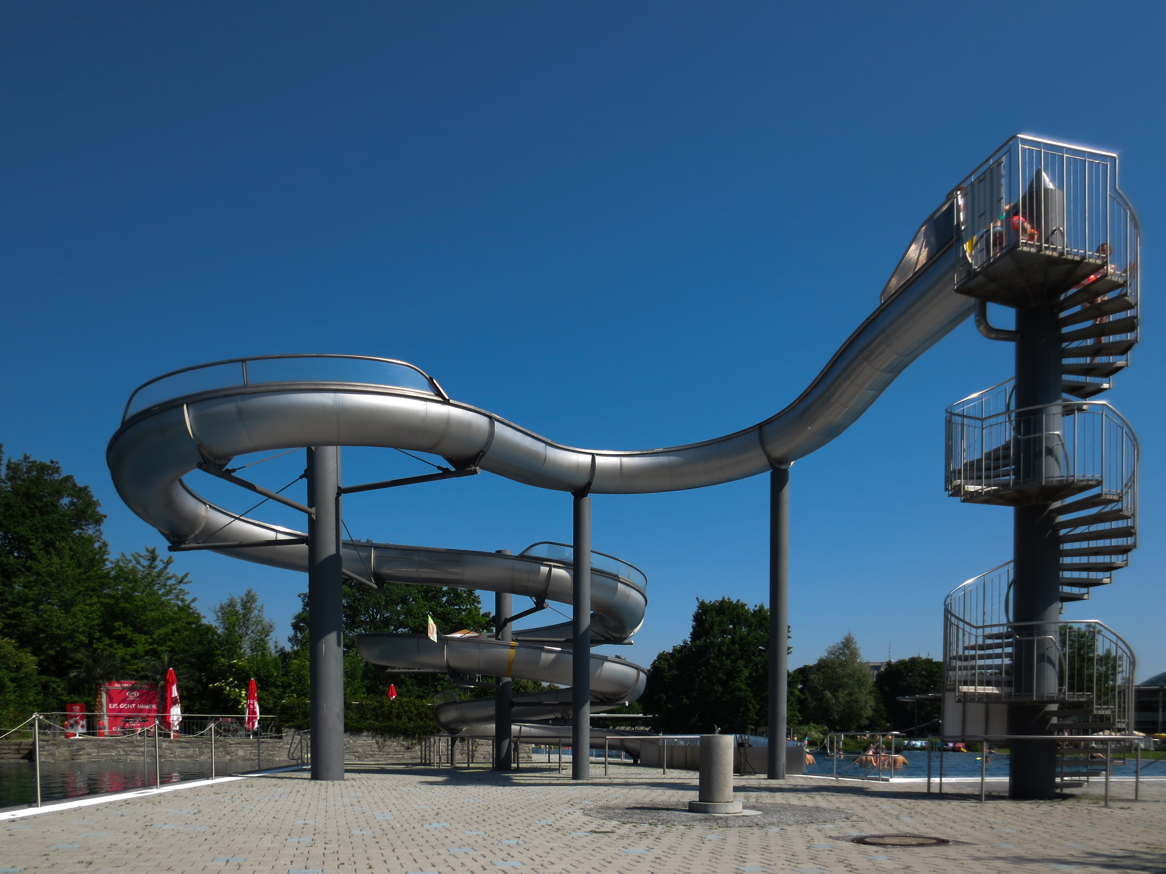 The open air bath "Westbad" in Munich. The big water slide.